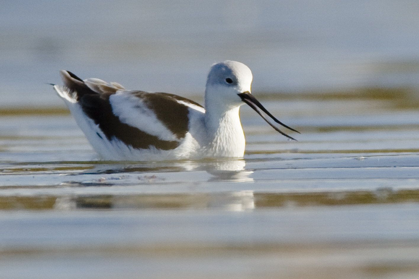 American Avocet (Recurvirostra americana) in Morro Bay, CA at extreme high tide which forced birds to the shore, 24 Dec 2007 24dec2007 - Photo by Michael Mike L. Baird, Canon 1D Mark III with 600mm IS lens w/ 1.4X II TE and polarizer, on tripod